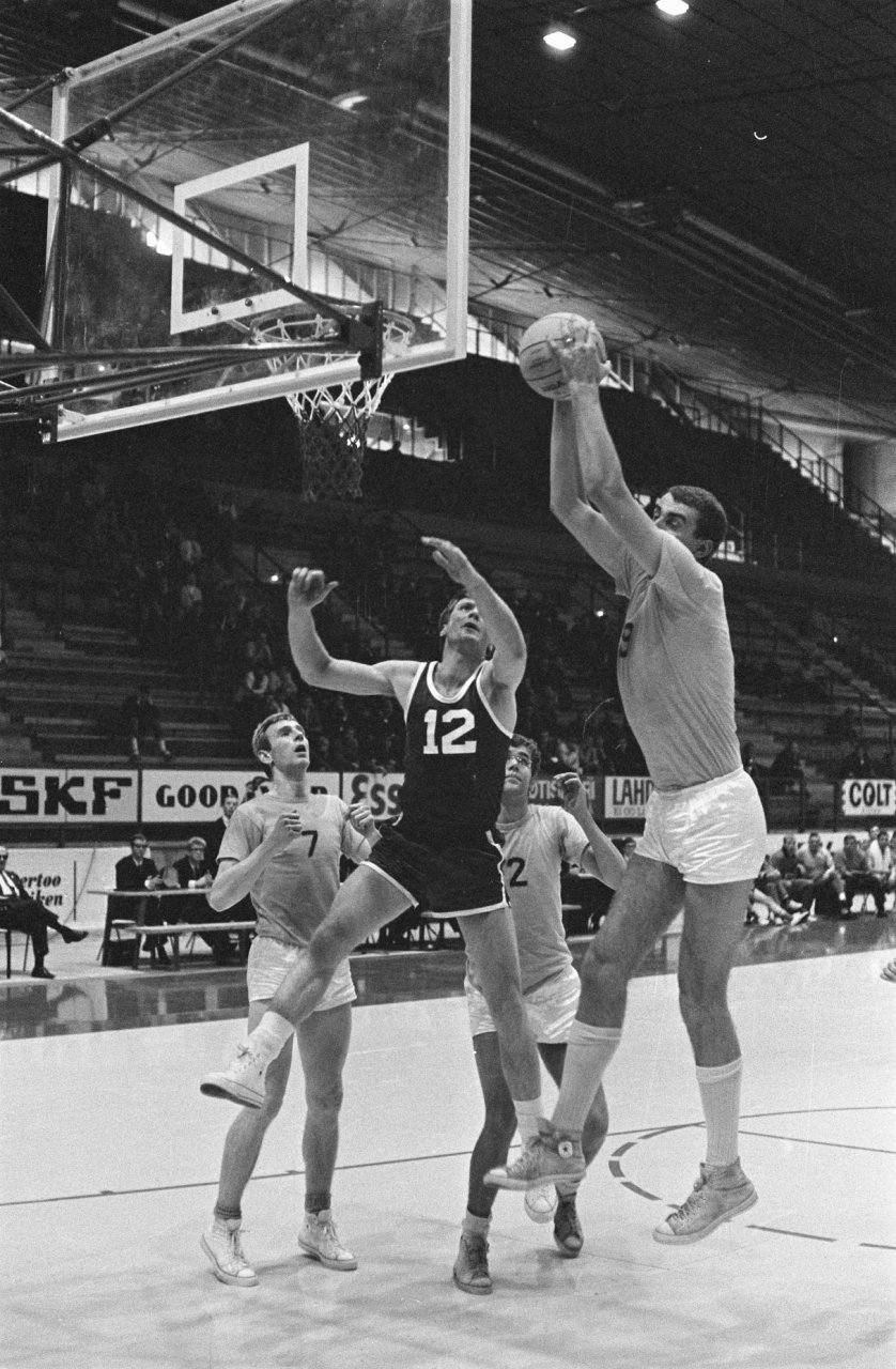 European basketball championship 1968 in Helsinki, Belgium vs the Netherlands